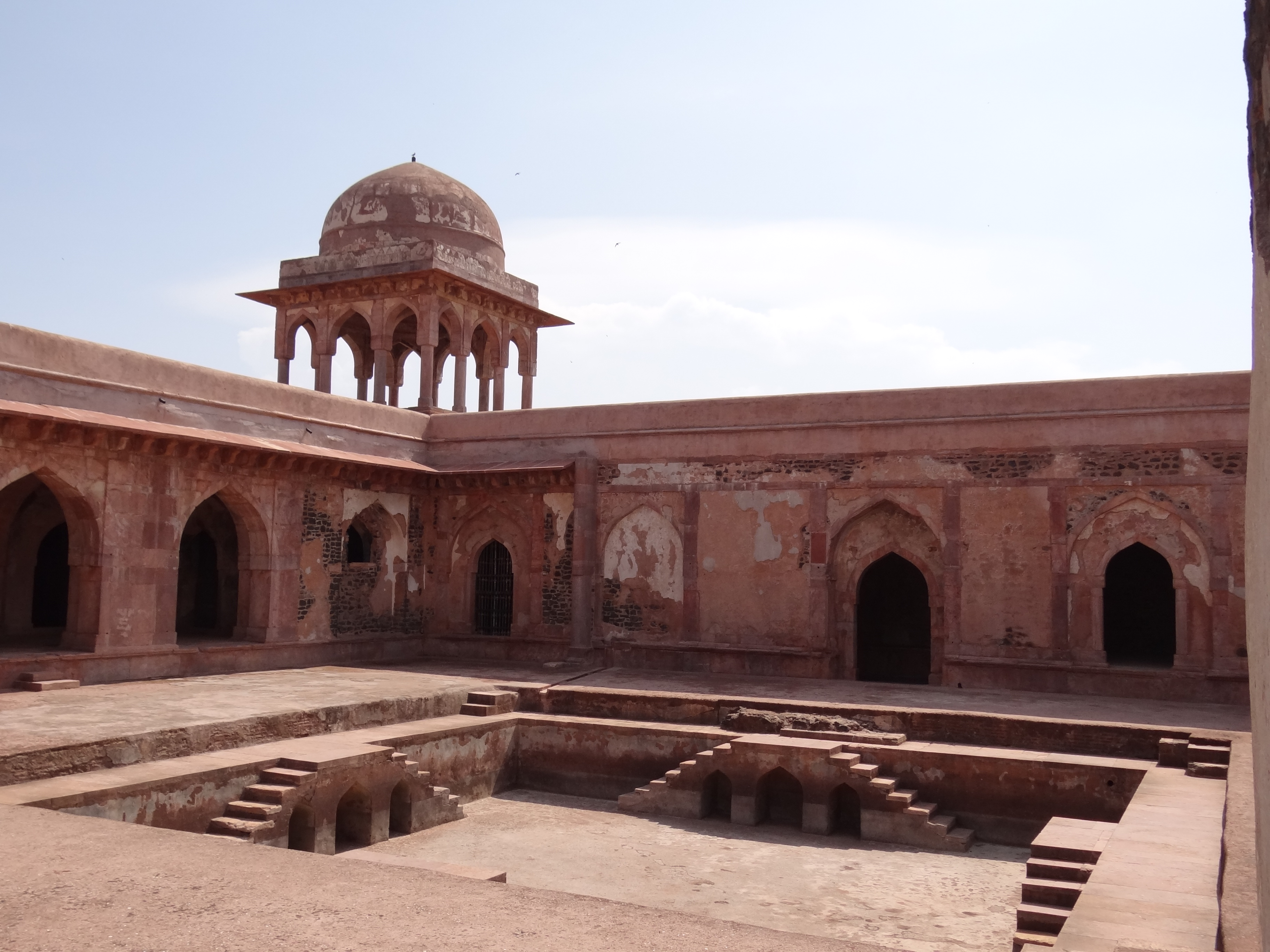 Baz Bahadur's Palace